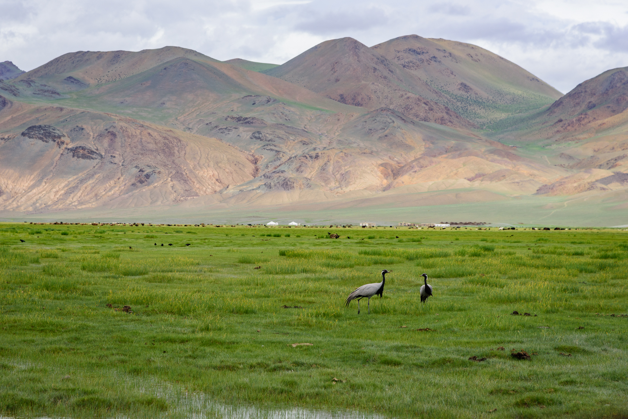 Demoiselle cranes (Grus virgio) in north west mongolia.